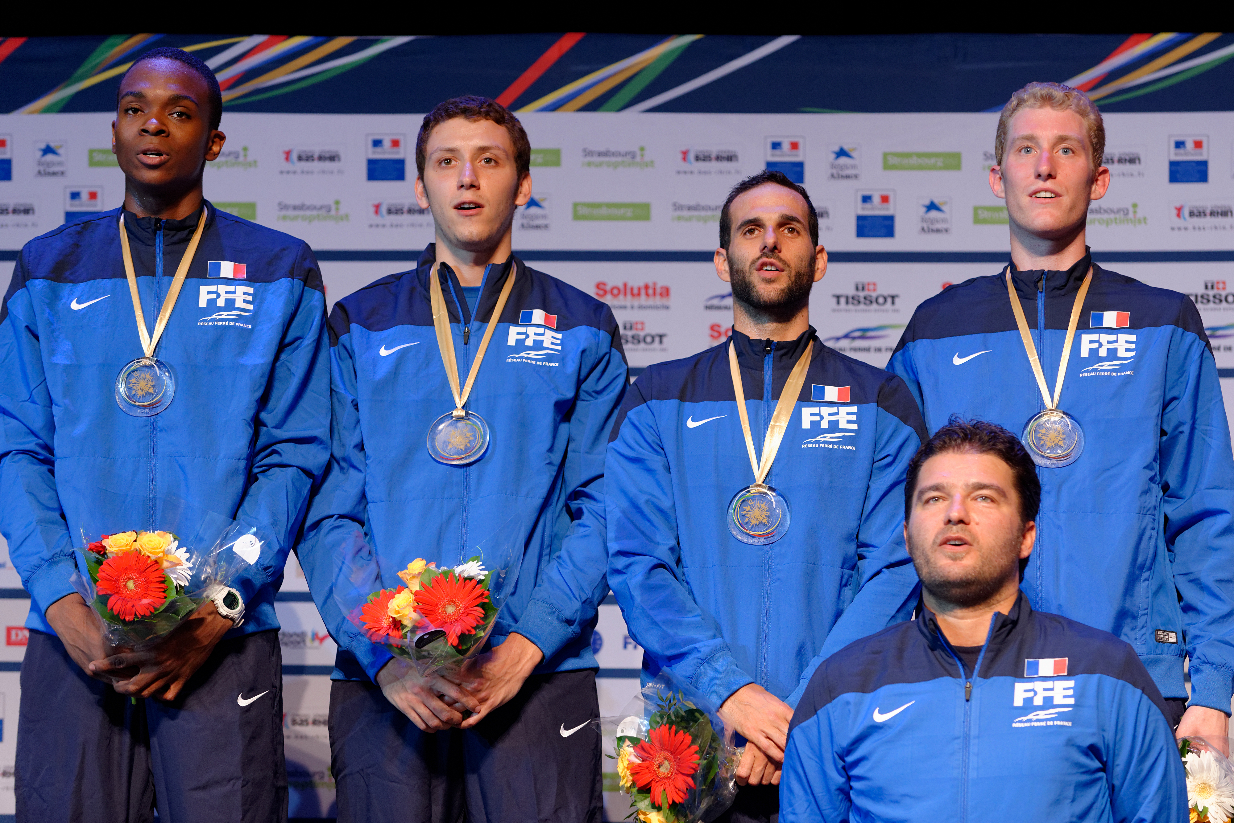 The France team (from left to right, Enzo Lefort, Vincent Simon, Erwann Le Péchoux, and Julien Mertine) and national head coach Franck Boidin sing their national anthem at the award ceremony of the men's team foil event at the European Fencing Championships at Rhénus Sport in Strasbourg on 13 June 2014.